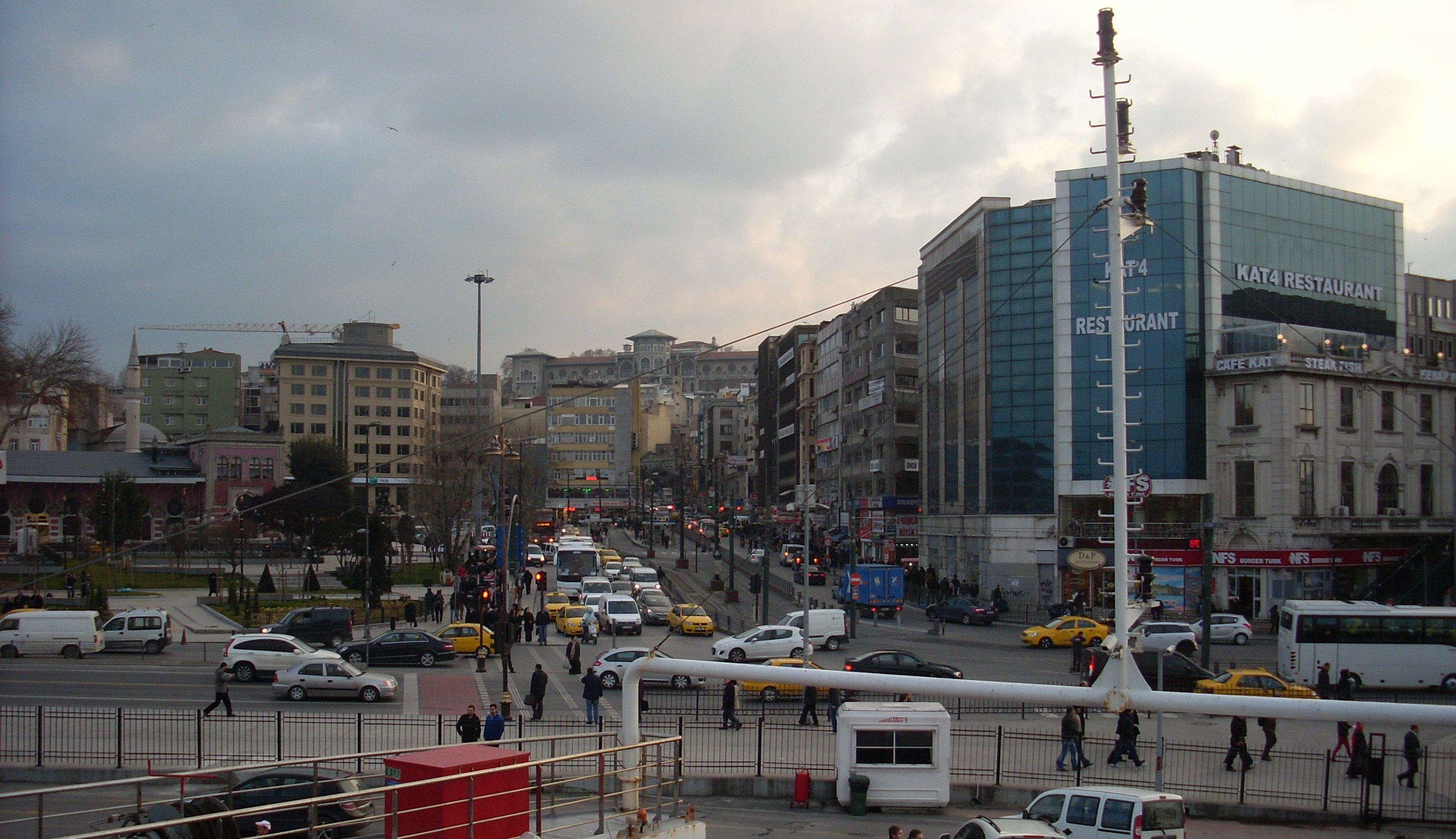 İstanbul - Sirkeci,Fatih2 - Feb 2013